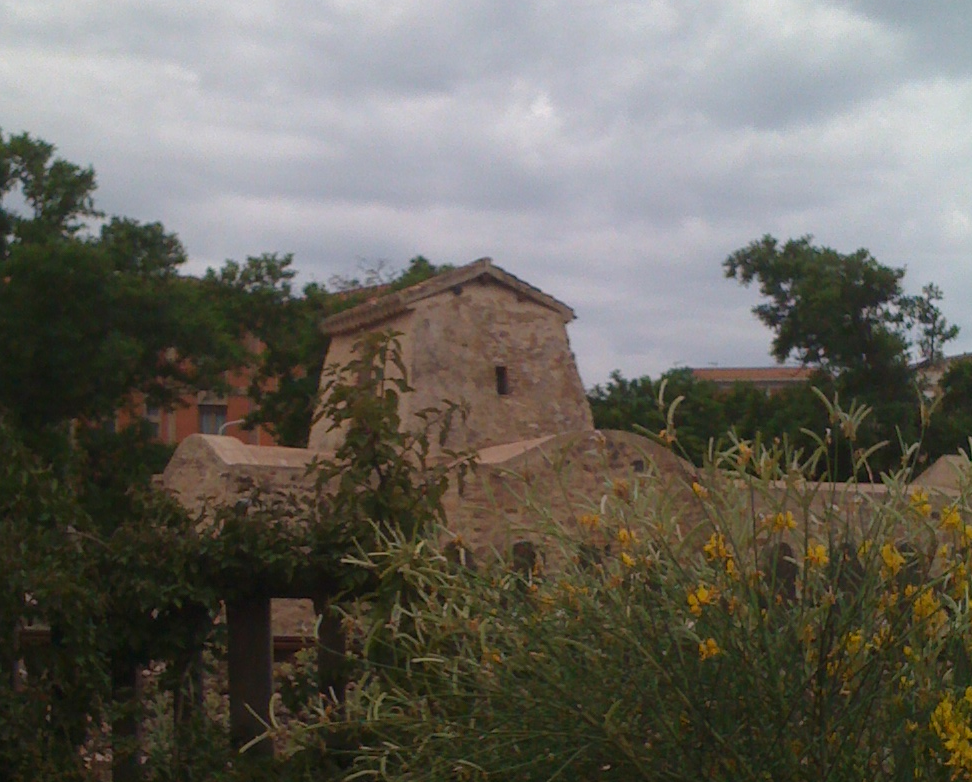 Church of San Salvatore - Iglesias , Italy-Sardinia